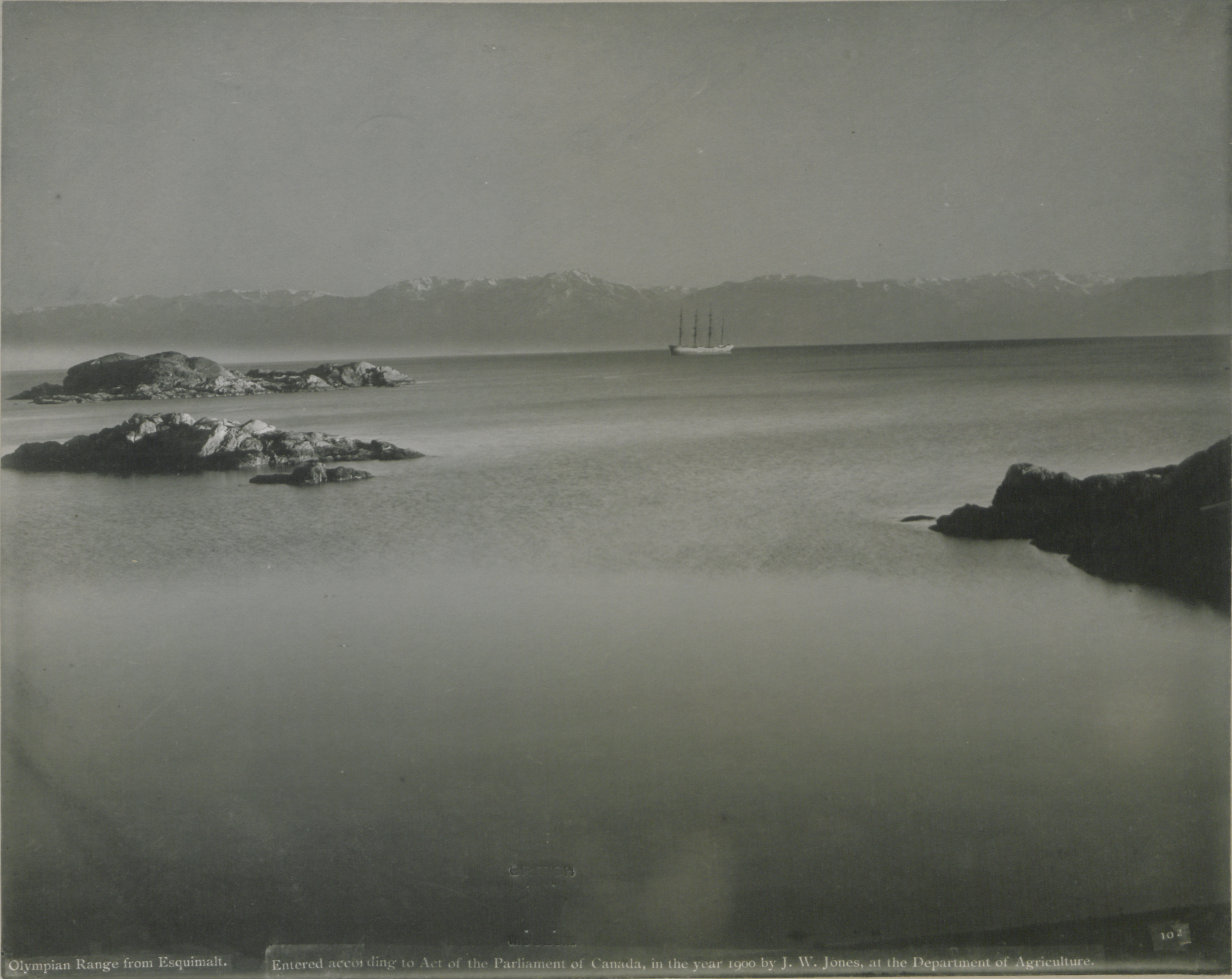 The Olympian Range, from Esquimalt.